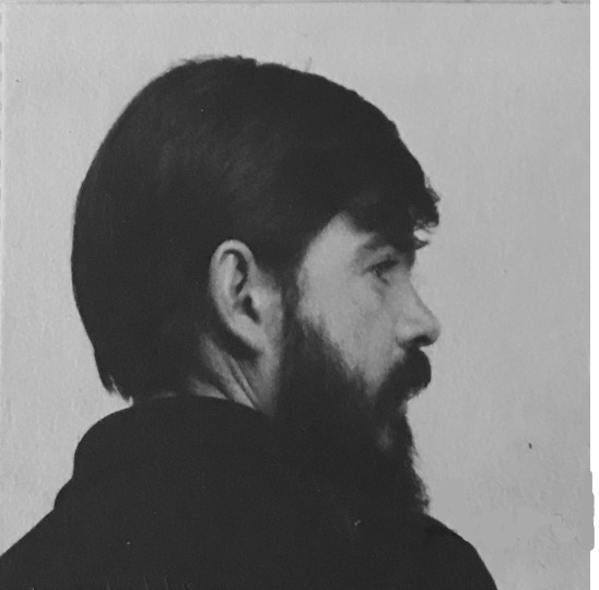 Portrait of the artist